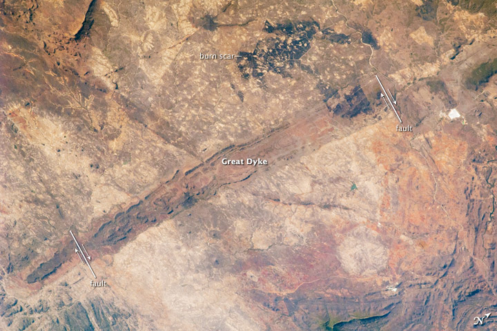 The Great Dyke of Zimbabwe is a layered mafic intrusion of igneous, metal-bearing rock that has been dated to approximately 2.5 billion years old. The dyke (or dike in American English) intrudes through the even older rocks of African craton, the core of oldest rocks forming the continent of Africa. In cross section, the Great Dyke looks somewhat triangular or keel-shaped, suggesting to geologists that it rose along deep faults associated with extension of the African crust. This geological feature extends more than 550 kilometers (342 miles) northeast to southwest across the center of Zimbabwe, varying from 3 to 12 kilometers (2-8 miles) in width. The southern end of the dyke is captured in this astronaut photograph. Layered mafic intrusions are usually associated with economically important metals such as chromium, nickel, copper, platinum, titanium, iron, vanadium, and tin. Chromium, in the form of the mineral chromite, and platinum are particularly abundant in the Great Dyke and actively mined. Younger faults have offset sections of the Dyke along its length; two of the most obvious faults in the image are indicated, with arrows showing the relative directions of offset. While the Great Dyke and its metal ores are products of geologic processes from the deep past, more recent events have also left their mark on the landscape. Two large burn scars from fires are visible at image top center. An older, more detailed view of the Great Dyke can be found in an astronaut photograph available here. Astronaut photograph ISS025-E-5538 was acquired on September 30, 2010, with a Nikon D2Xs digital camera using a 180 mm lens, and is provided by the ISS Crew Earth Observations experiment and Image Science & Analysis Laboratory, Johnson Space Center. The image was taken by the Expedition 25 crew.